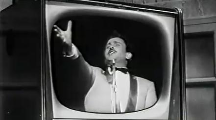 Domenico Modugno sings at Sanremo